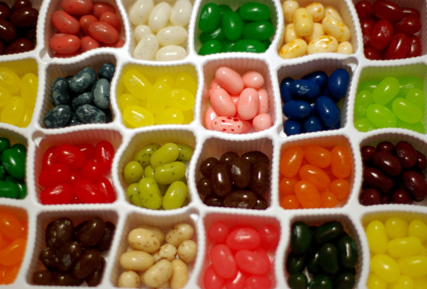 Jelly Belly jelly beans.